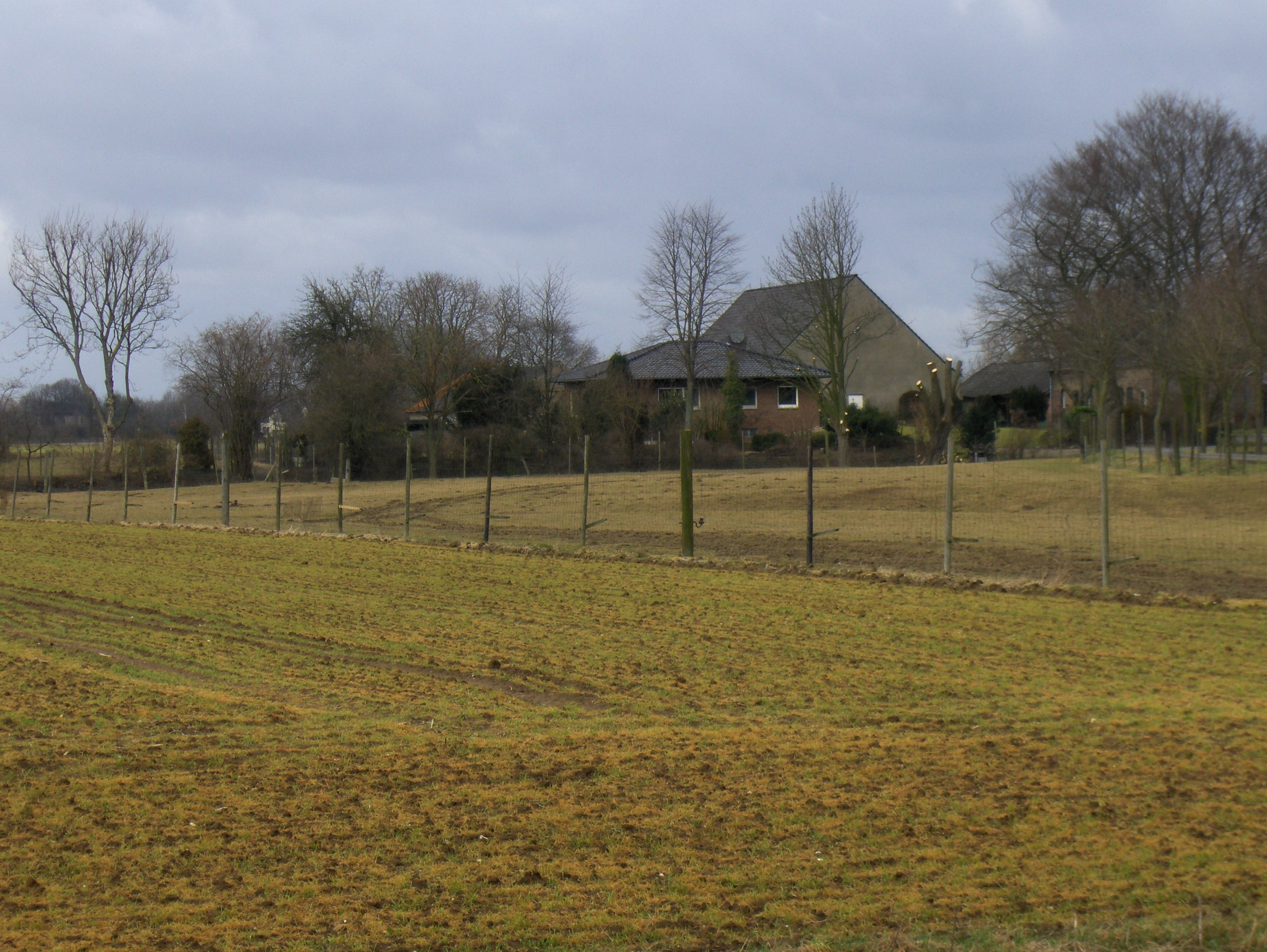 Former Castle Haus Groin near Rees, Germany